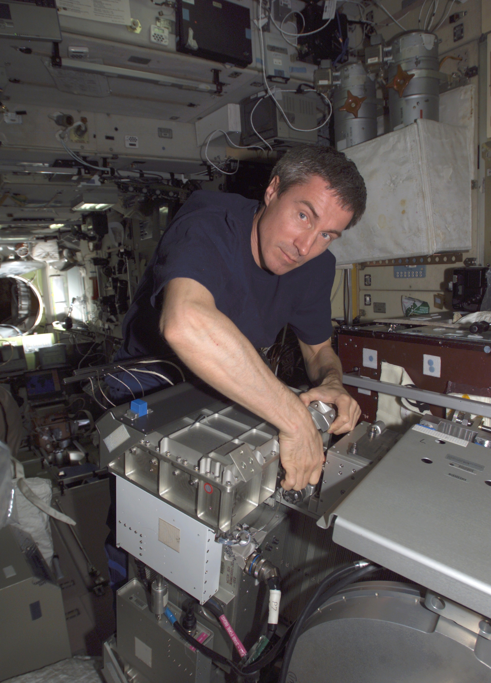 Cosmonaut Sergei K. Krikalev, Expedition 11 commander representing Russia's Federal Space Agency, works with the Treadmill Vibration Isolation System (TVIS) Chassis Assembly during an In-Flight Maintenance (IFM) in the Zvezda Service Module of the International Space Station (ISS).